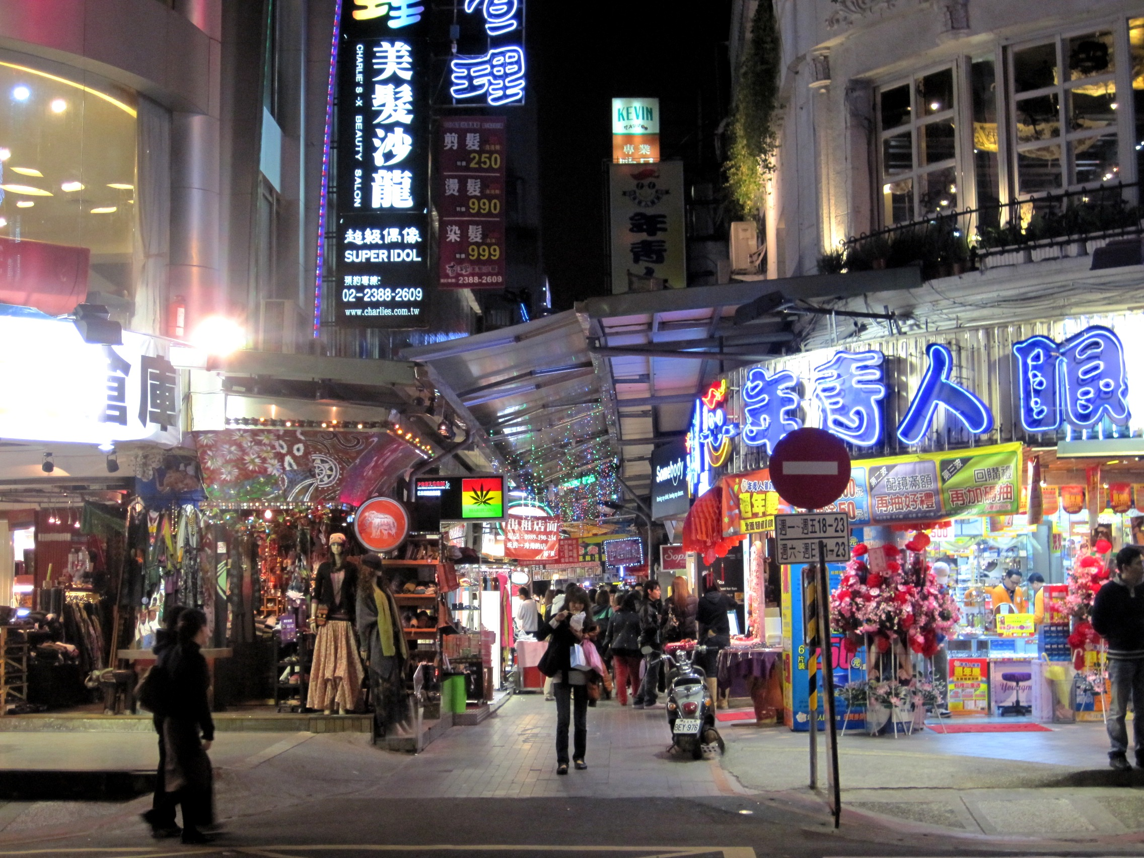 Ximending Pedestrian Zone side alley at night. 中文（台灣）: 西門町徒步區